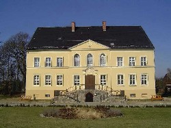 Bomsdorf Manor House near Neuzelle, Germany